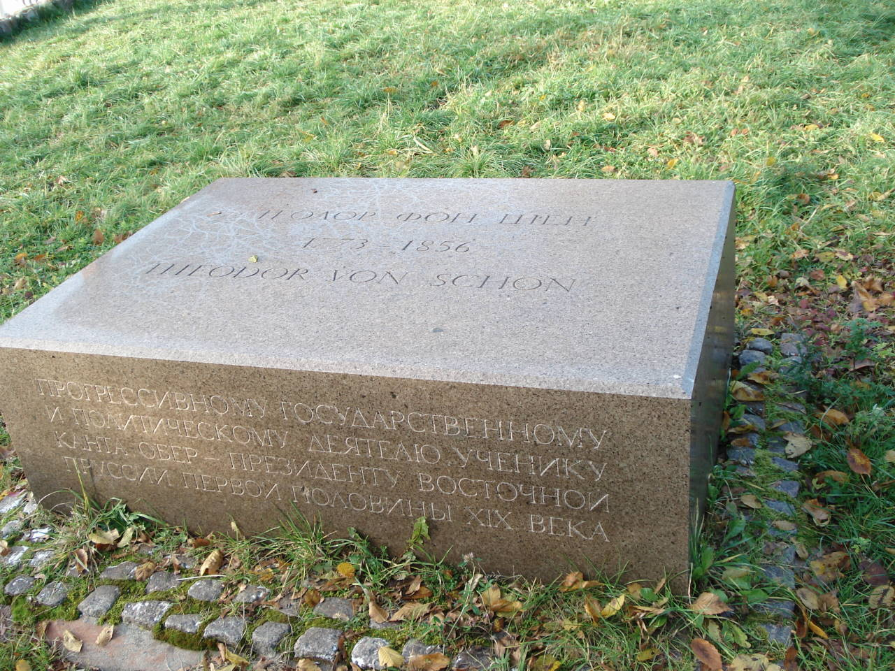 The newly erected gravestone Theodor von Schön at the formerly cemetery in Marjino (Arnau)